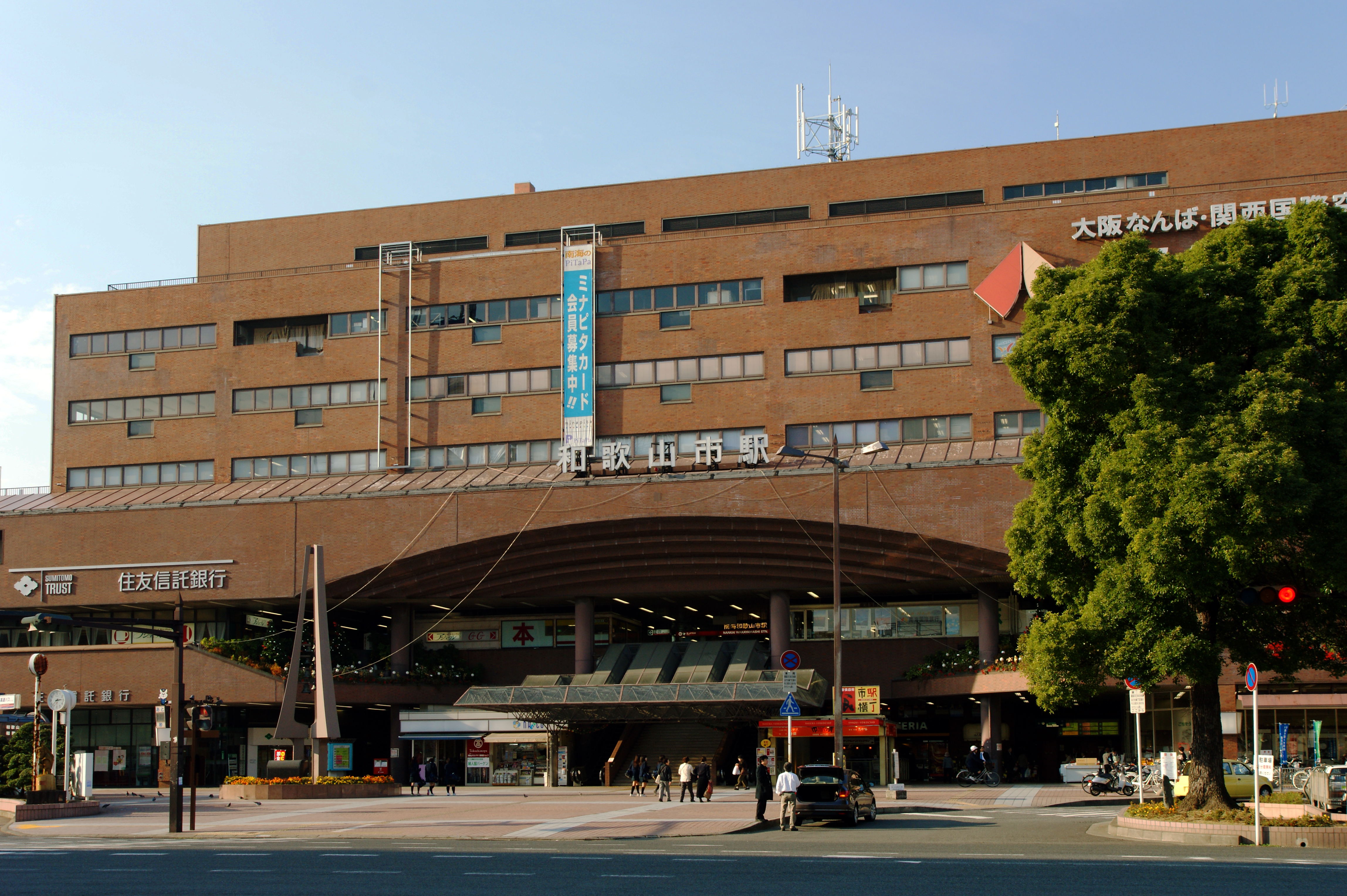 Wakayamashi Station, Wakayama, Wakayama prefecture, Japan